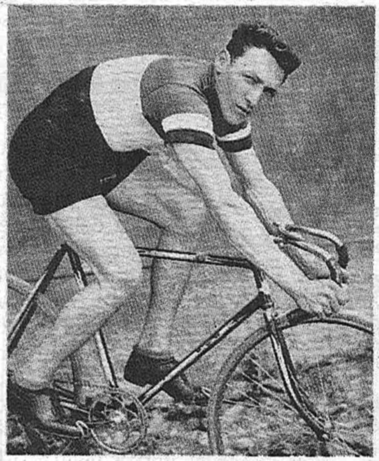 cyclist